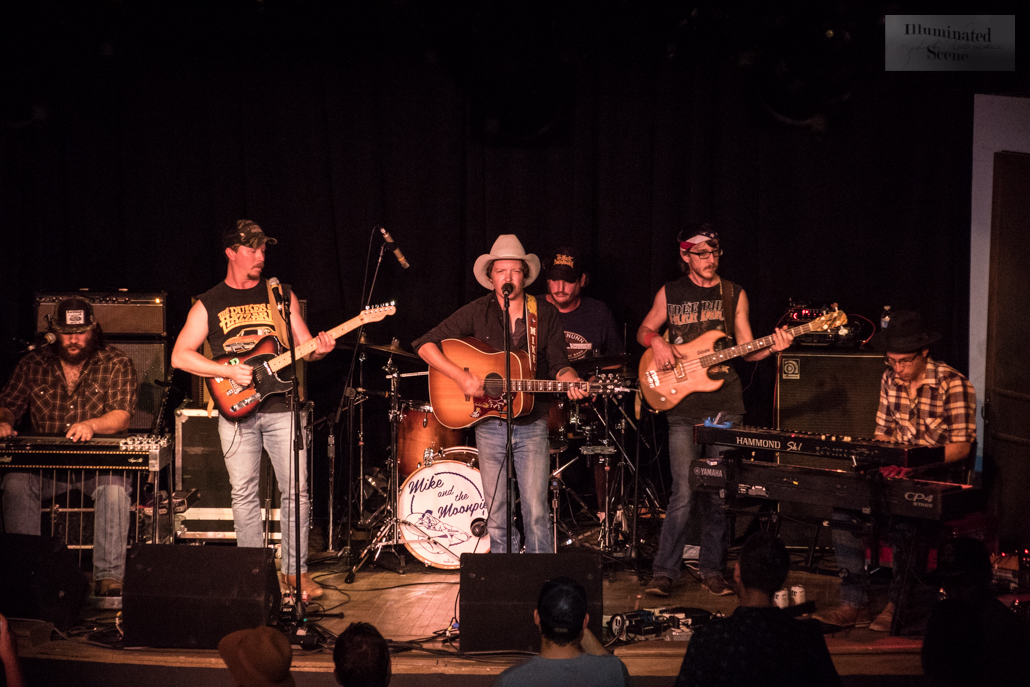 Mike and the Moonpies at Moeller Nights, Village Theater, Davenport, IA 8/8/16